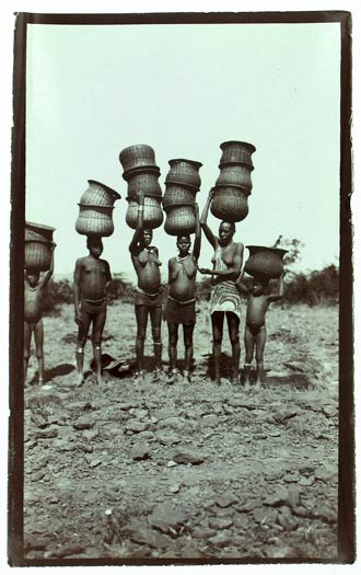 African Individuals and Groups in and near Kisumu, British East Africa 1911 - This image is part of a collection taken during the Paul J. Rainey Expedition to British East Africa. Following the conclusion of the Smithsonian-Roosevelt Expedition, Rainey asked Edmund Heller, a Smithsonian naturalist, to assist on an expedition to British East Africa. Important localities visited included the Mombasa region, the Loiti Plains, Nairobi and vicinity, Fort Hall, Mount Kenia and vicinity, Mount Uaragess and vicinity and the Kavirando Bay region of Lake Victoria. Heller also made a trip independent of the expedition to Mount Lololokwi Full description